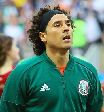 Miguel Layún, Francisco Guillermo Ochoa, Héctor Herrera, Andrés Guardado